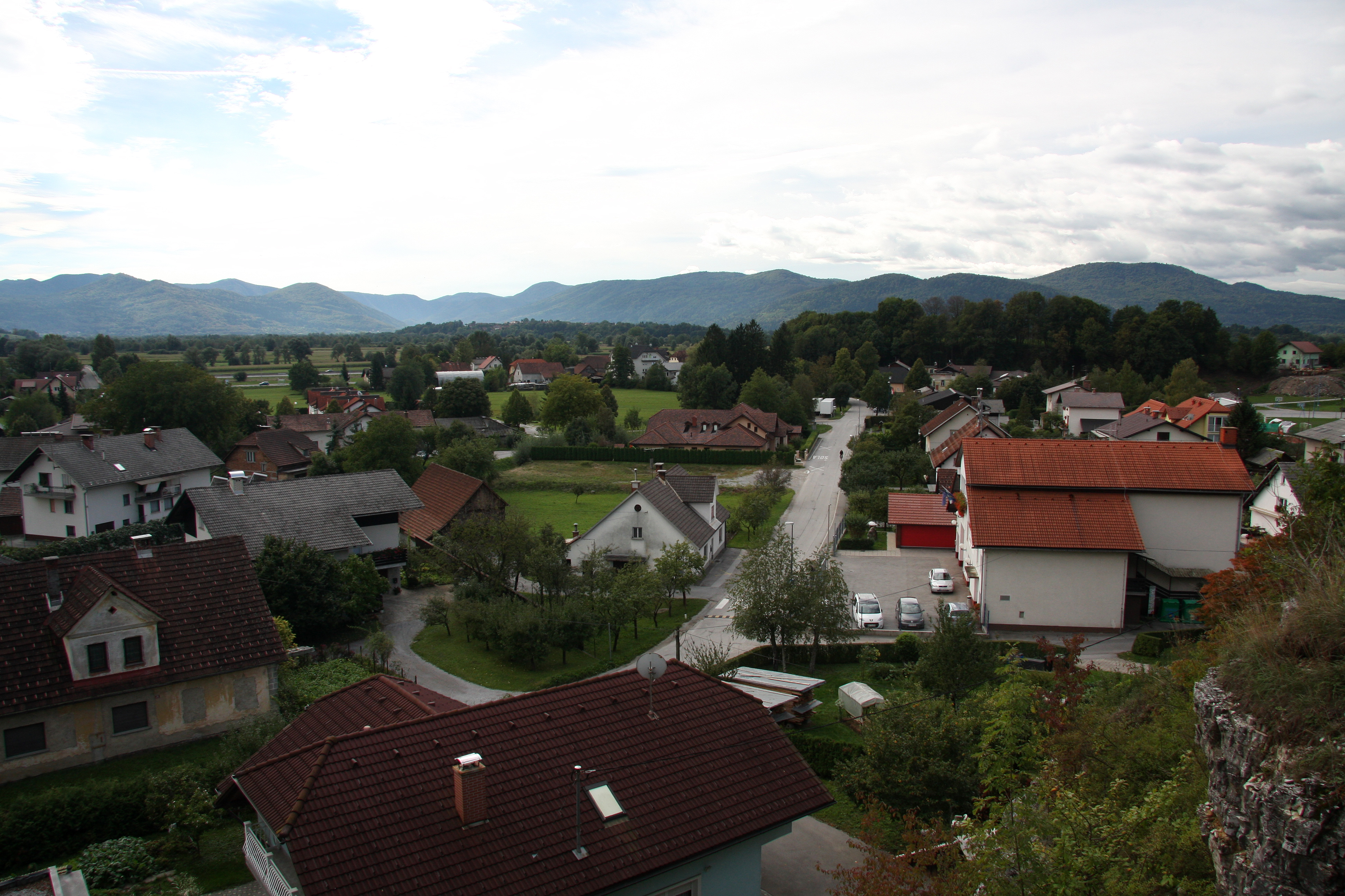 Drenov Grič, Slovenia, view from a hill above the village.